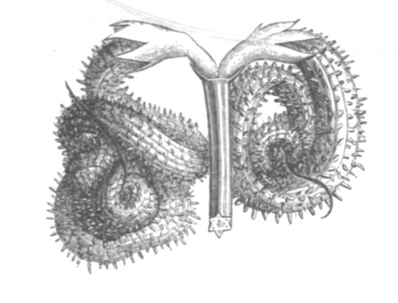 Illustration from book